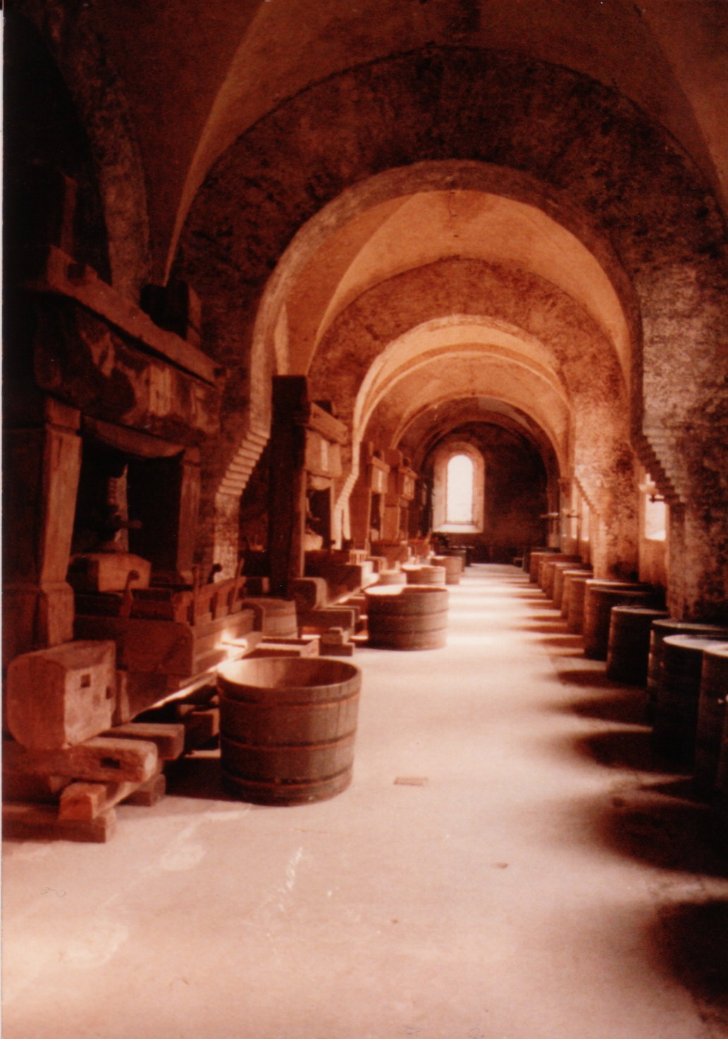 The press room of Kloster Eberbach, a Cistercian monastery in Germany